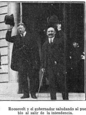 The president of the United States Theodore Roosevelt with the governor of the Santa Fe province Manuel Menchaca